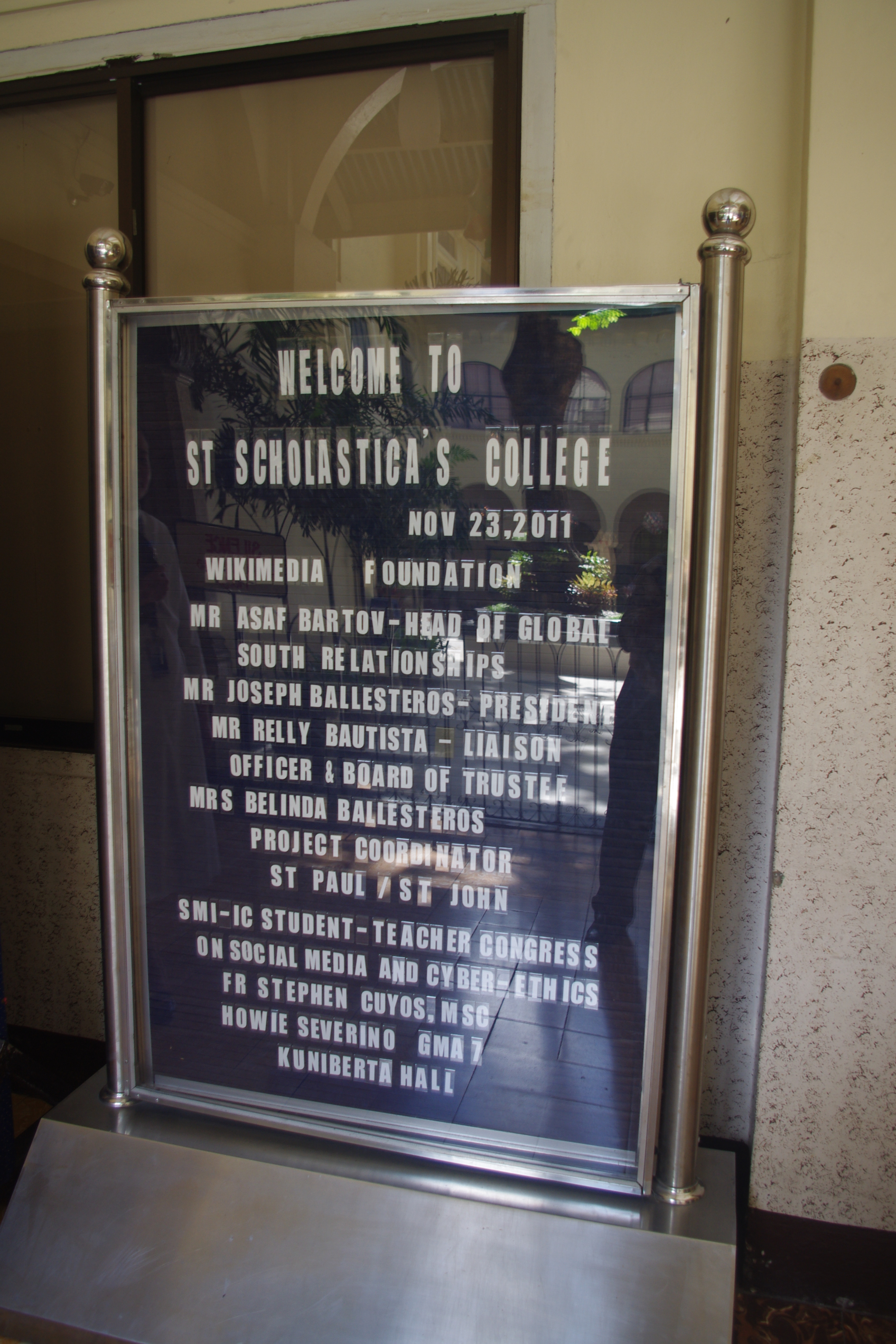 2011 Wikimedia East Asia Tour: Philippines - St. Scho welcomes Wikimedia